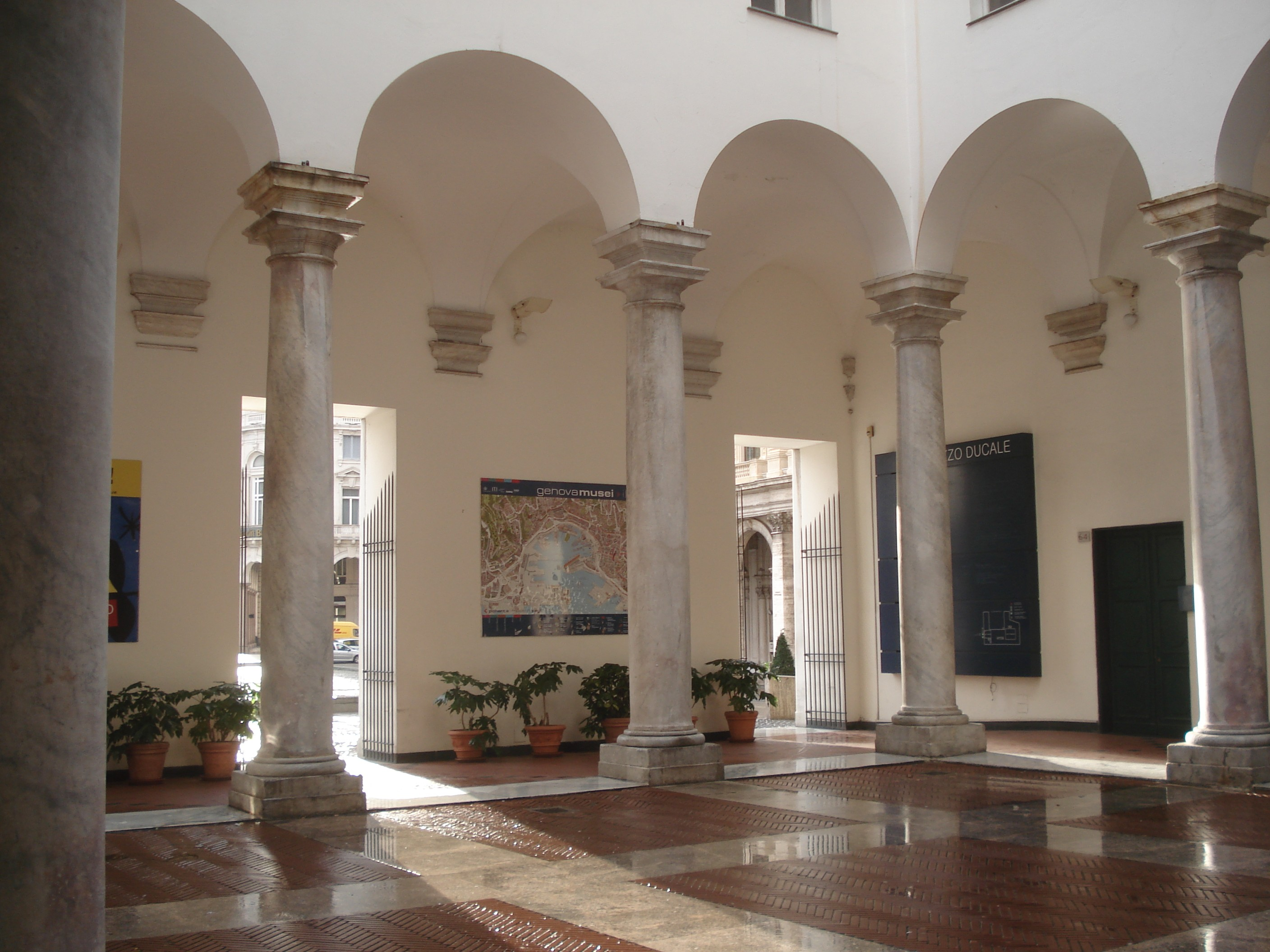 Minor Courtyard in Doge's Palace in Genoa